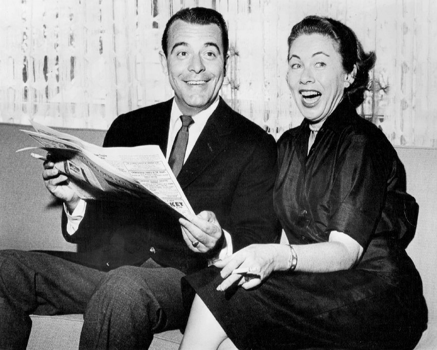 Publicity photo of George Fenneman and his wife, Peggy.